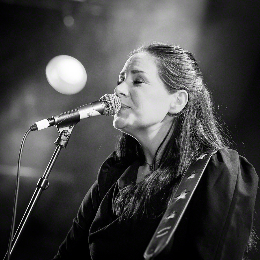 Ingerlise Størksen at the reunion concert with Ephemera at Parkteatret in Oslo on 16.04.2016. Lineup:Jannicke Larsen (keyboard)Ingerlise Størksen (guitar)Christine Sandtorv (guitar)